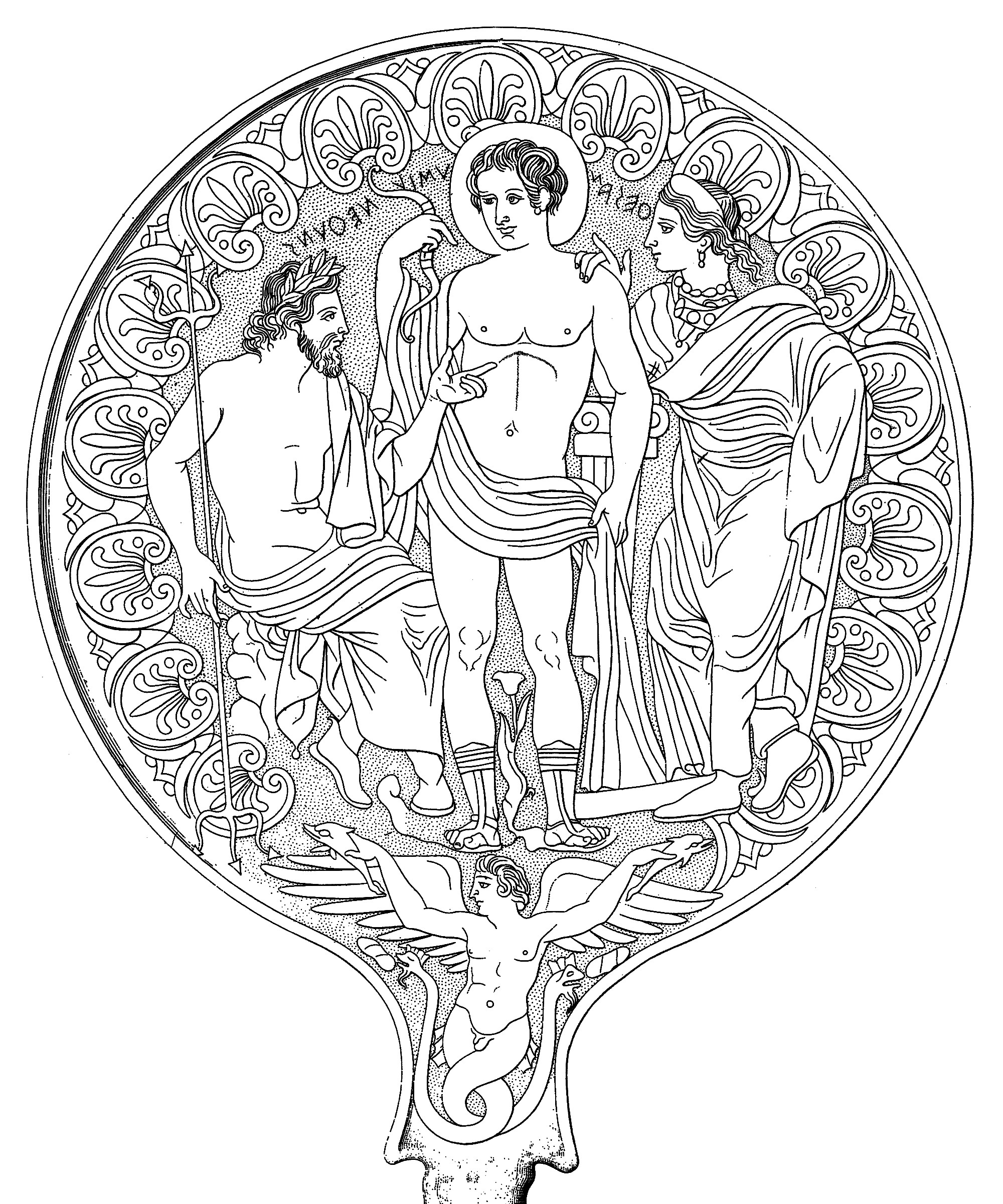 Bronze mirror from Tuscania. From left to right, Nethuns, Usil, Thesan. In the lower exergue a winged anguiped demon who holds up a dolphin in each hand. Vatican Museums, Museo Gregoriano Etrusco.